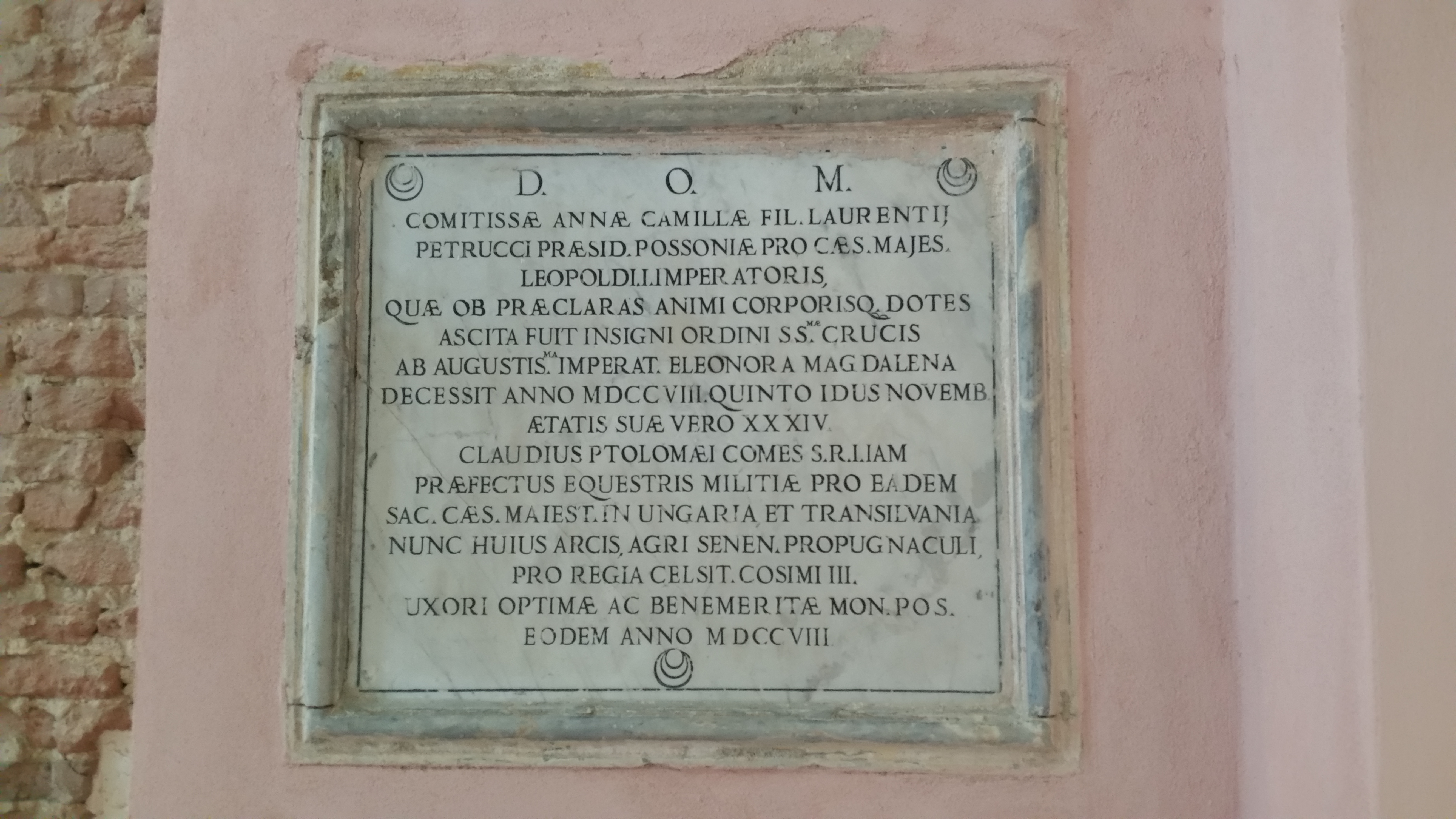 Former chapel of Santa Barbara in Grosseto's Fortress